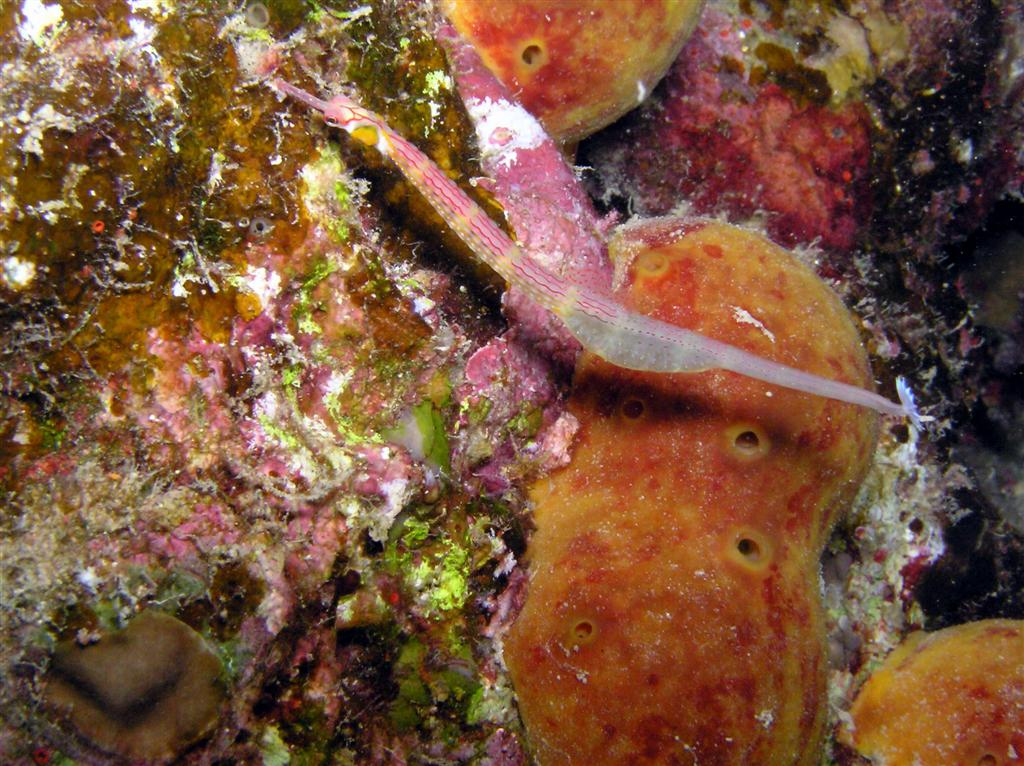 Blackbreasted Pipefish (Corythoichthys nigripectus) carrying eggs